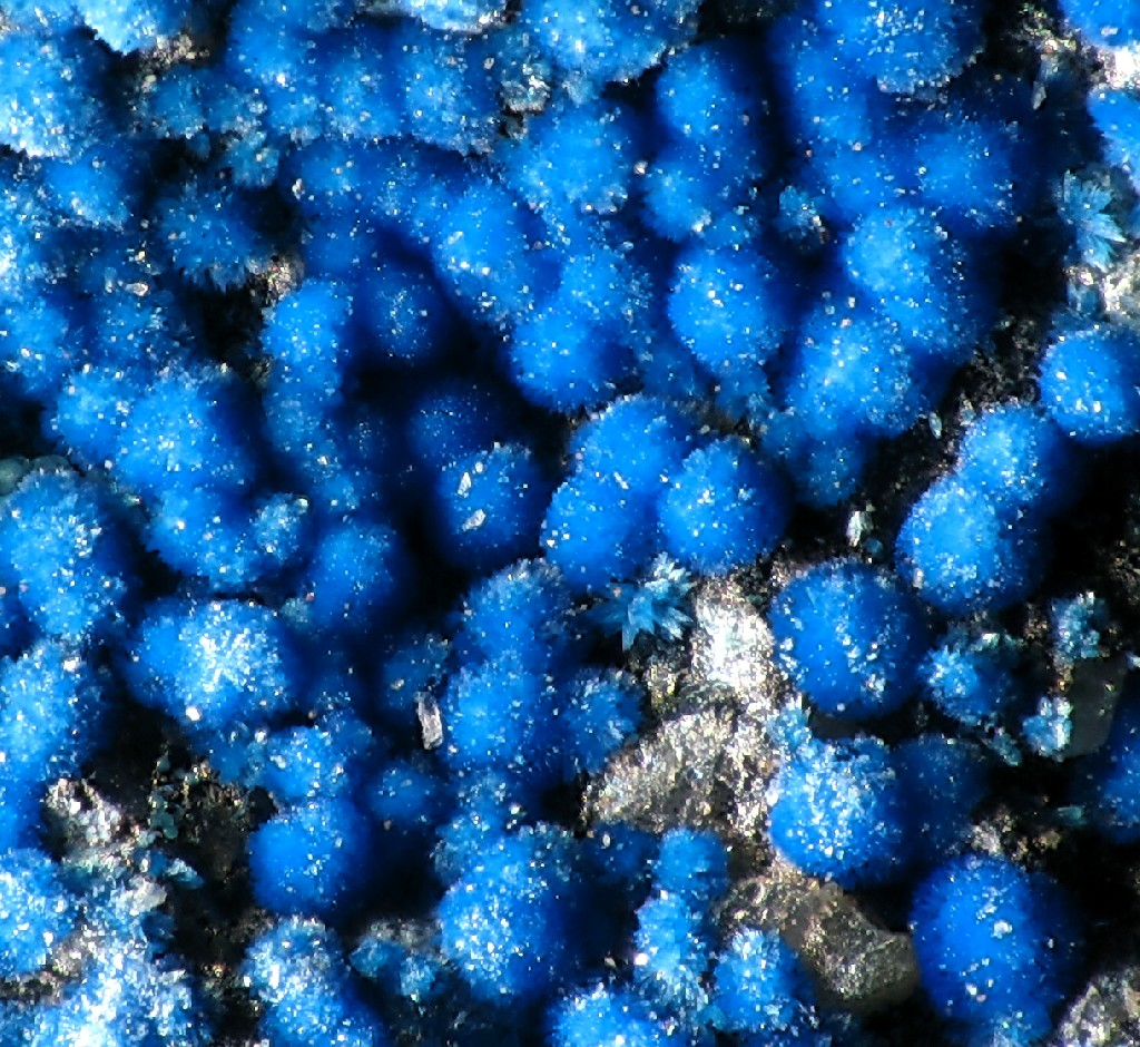 Likasite Locality: Dzhezkazgan Mine (Zhezkazgan Mine), Dzhezkazgan, Zhezqazghan Oblysy (Dzezkazgan Oblast'; Dzhezkazgan Oblast'; Djezkazgan Oblast'; Jezkazgan Oblast'), Kazakhstan (Locality at ) Picture width 2 mm. Collection and photograph Christian Rewitzer